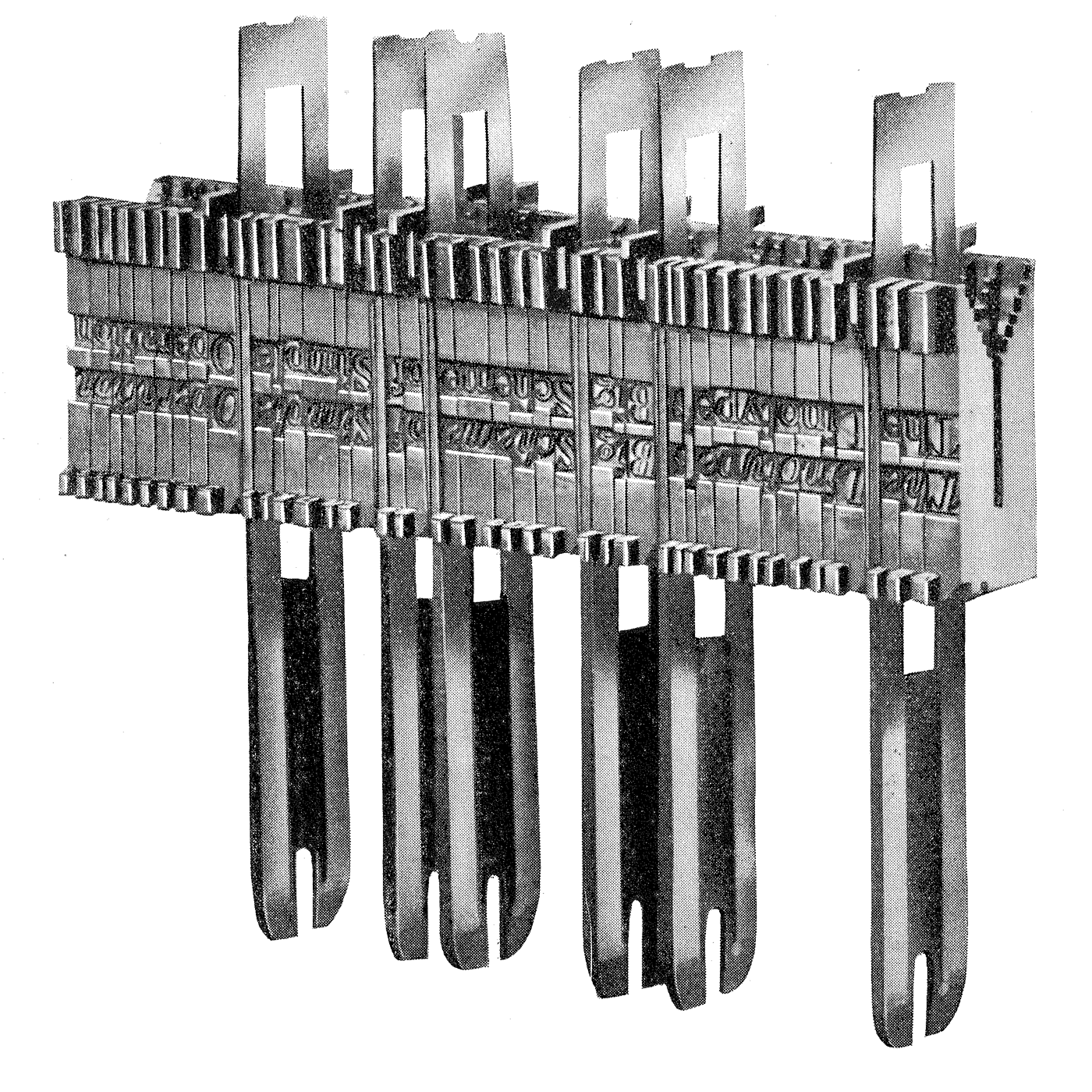 Composed line with matrices and spacebands in a Linotype machine